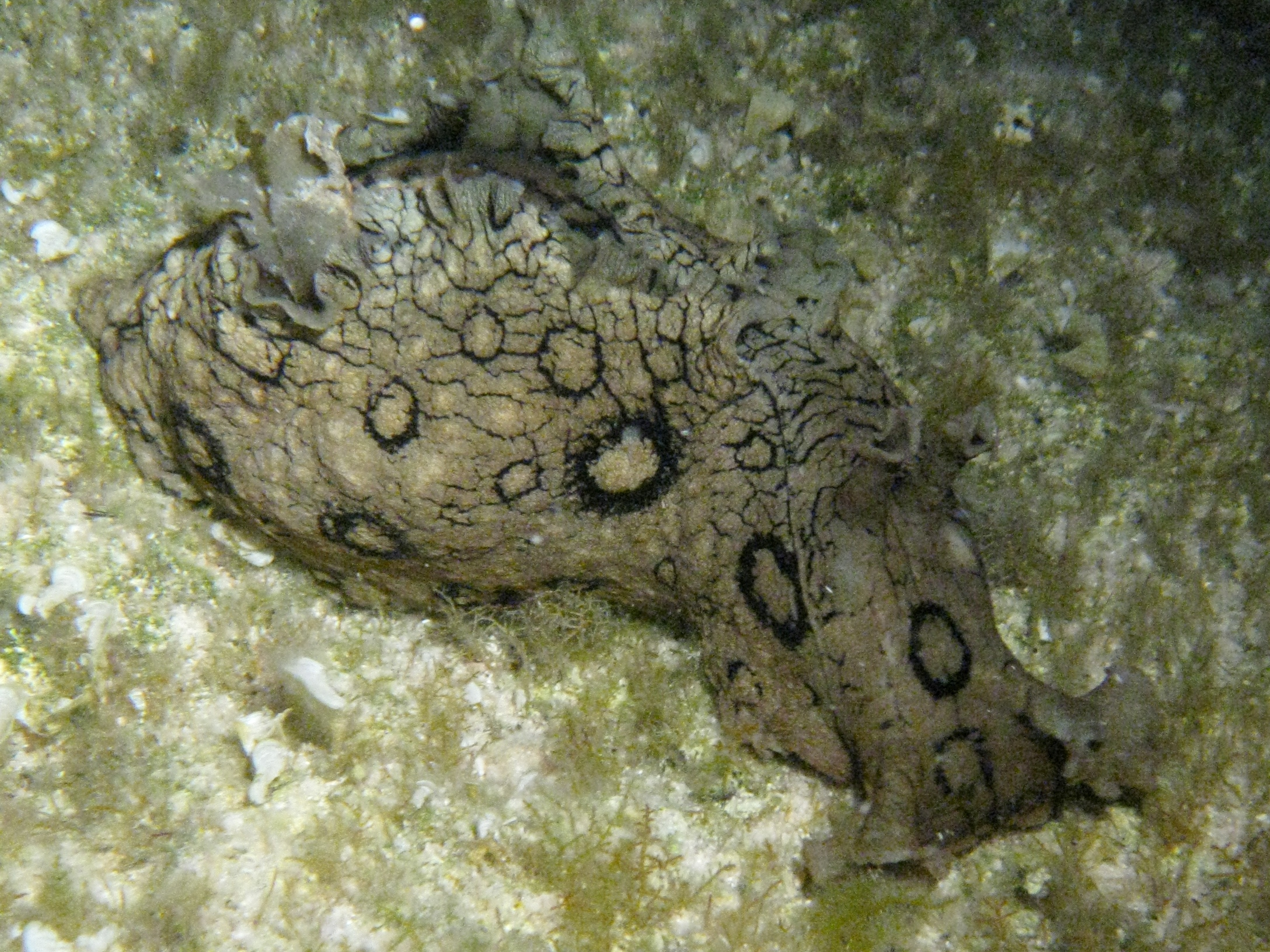 Aplysia dactylomela. Locality: Taken on a night dive in Cirkewwa 35° 59′ 19″ N, 14° 19′ 40″ E, Malta on a Gloster Divers trip with Corsair Diving.